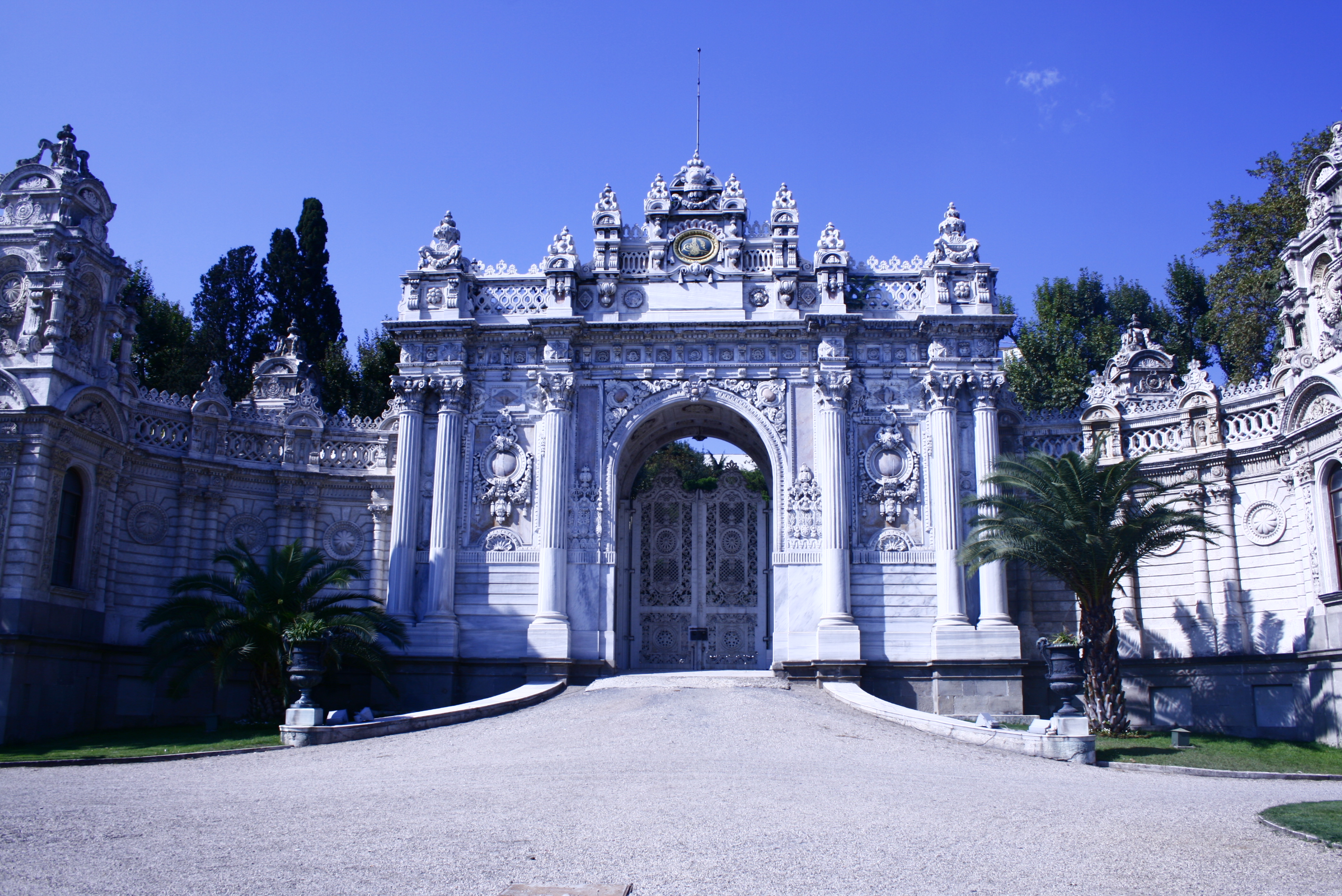 Treasury Gate, Dolmabahçe Palace, Turkey. Straßenseitiges Tor des Palastes